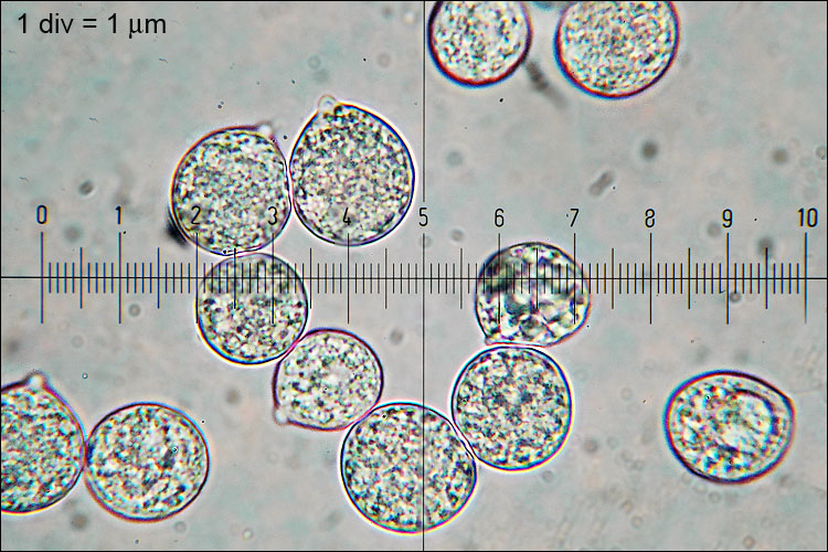 Oudemansiella mucida Location: West of Bovec, East Julian Alps, PosoÄ%uFFFDje, Slovenia Image Notes: Motic B1-211A, magnification 1.000 x, oil, in water. For more information about this, see the observation page at Mushroom Observer.